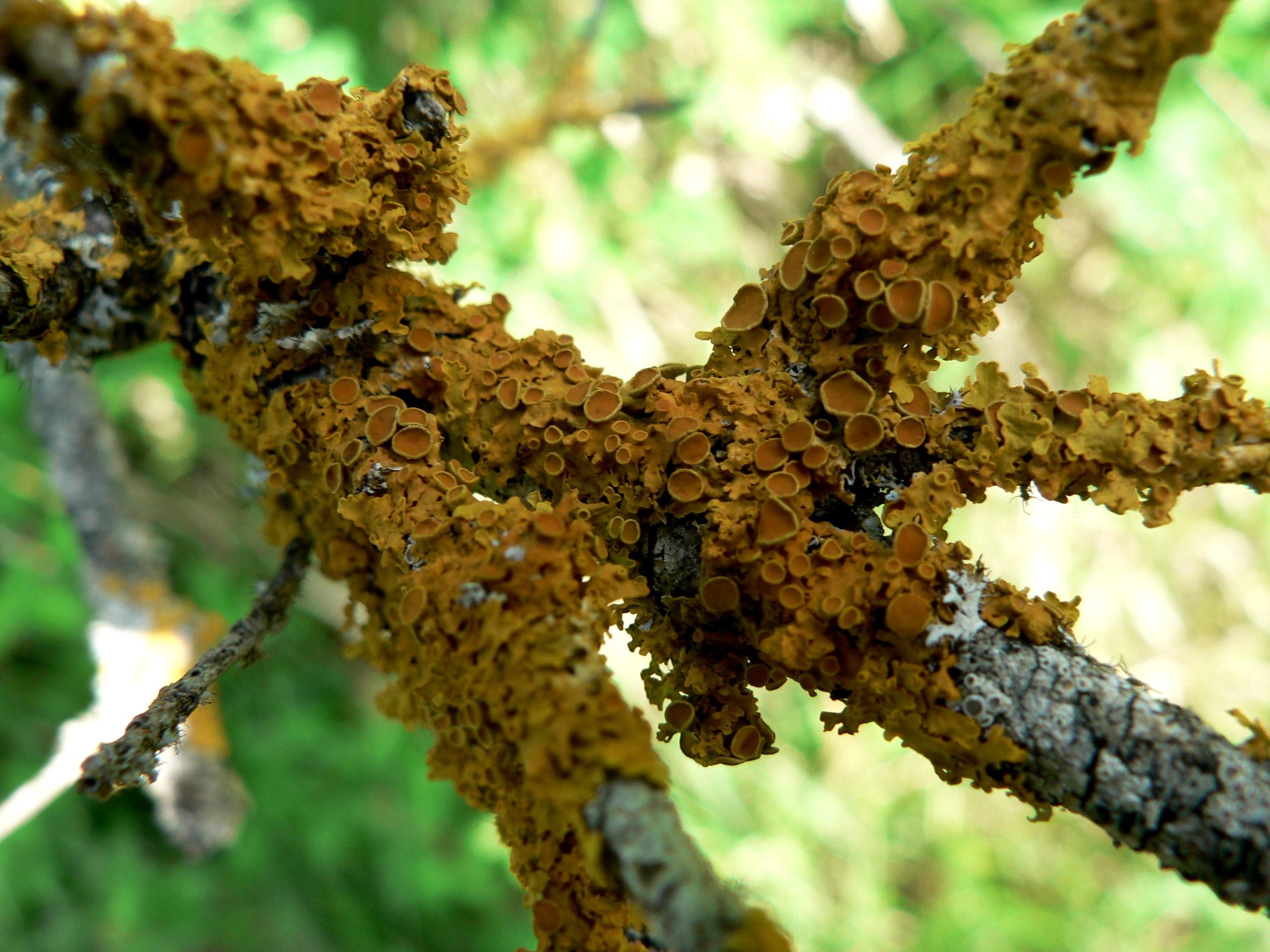 Xanthoria parietina is a foliose, or leafy, lichen. It has wide distribution, and many common names such as common orange lichen, yellow scale, maritime sunburst lichen and shore lichen. It can be found near the shore on rocks or walls (hence the epithet parietina meaning "on walls"), and also on inland rocks, walls, or tree bark. It was chosen as a model organism for genomic sequencing (planned in 2006) by the US Department of Energy Joint Genome Institute (JGI). In the past it was used as a remedy for jaundice because of its yellow color.